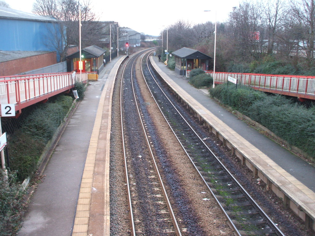 New Pudsey railway station, YorkshireOpened in 1967 by British Rail on the Leeds to Bradford Interchange line, it could be said it's not 'new' and it's not in Pudsey! View east towards Bramley and Leeds.